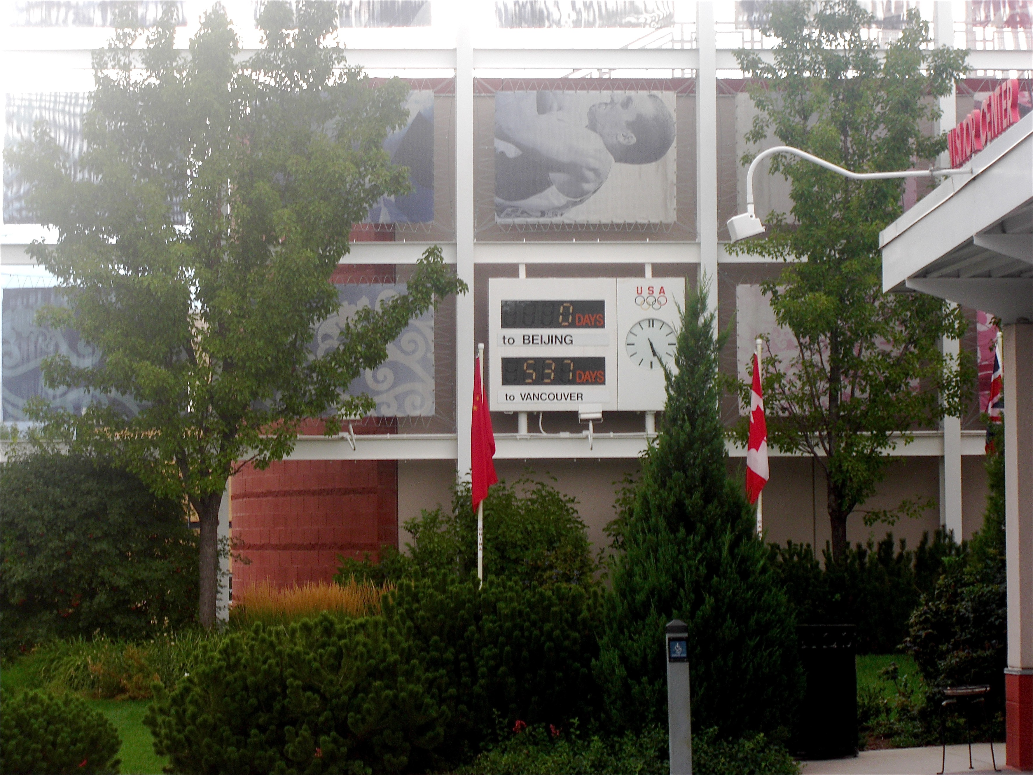 United States Olympic Training Center, Colorado Springs, Colorado.